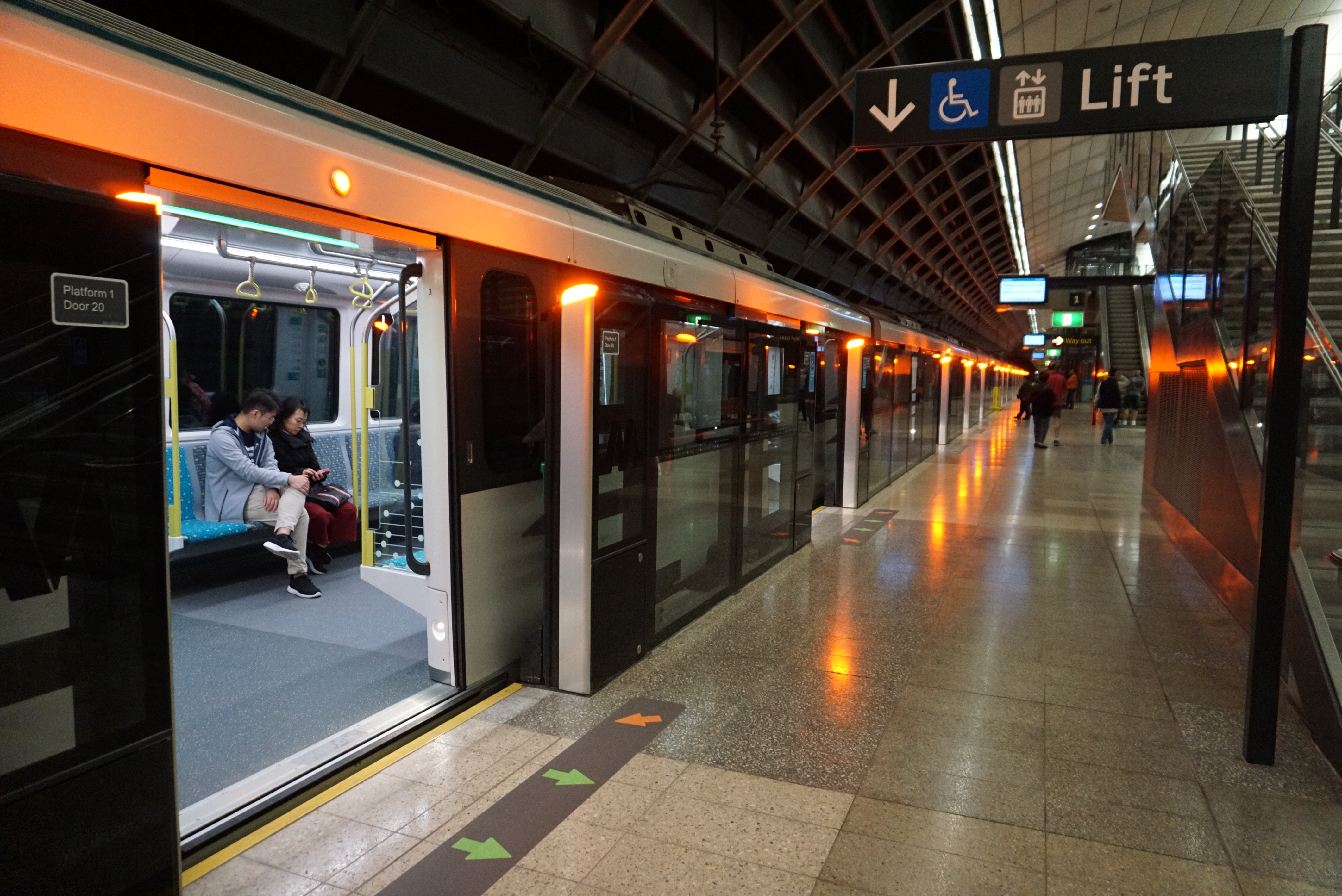 Sydney Metro